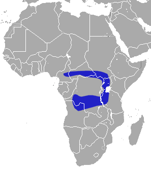 Roosevelt's Shrew (Crocidura roosevelti) range